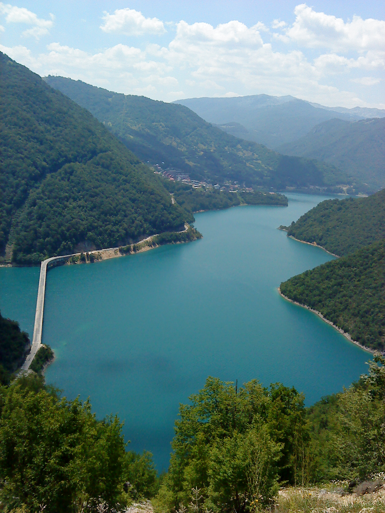 Pivsko jezero, reservoir of the Piva River